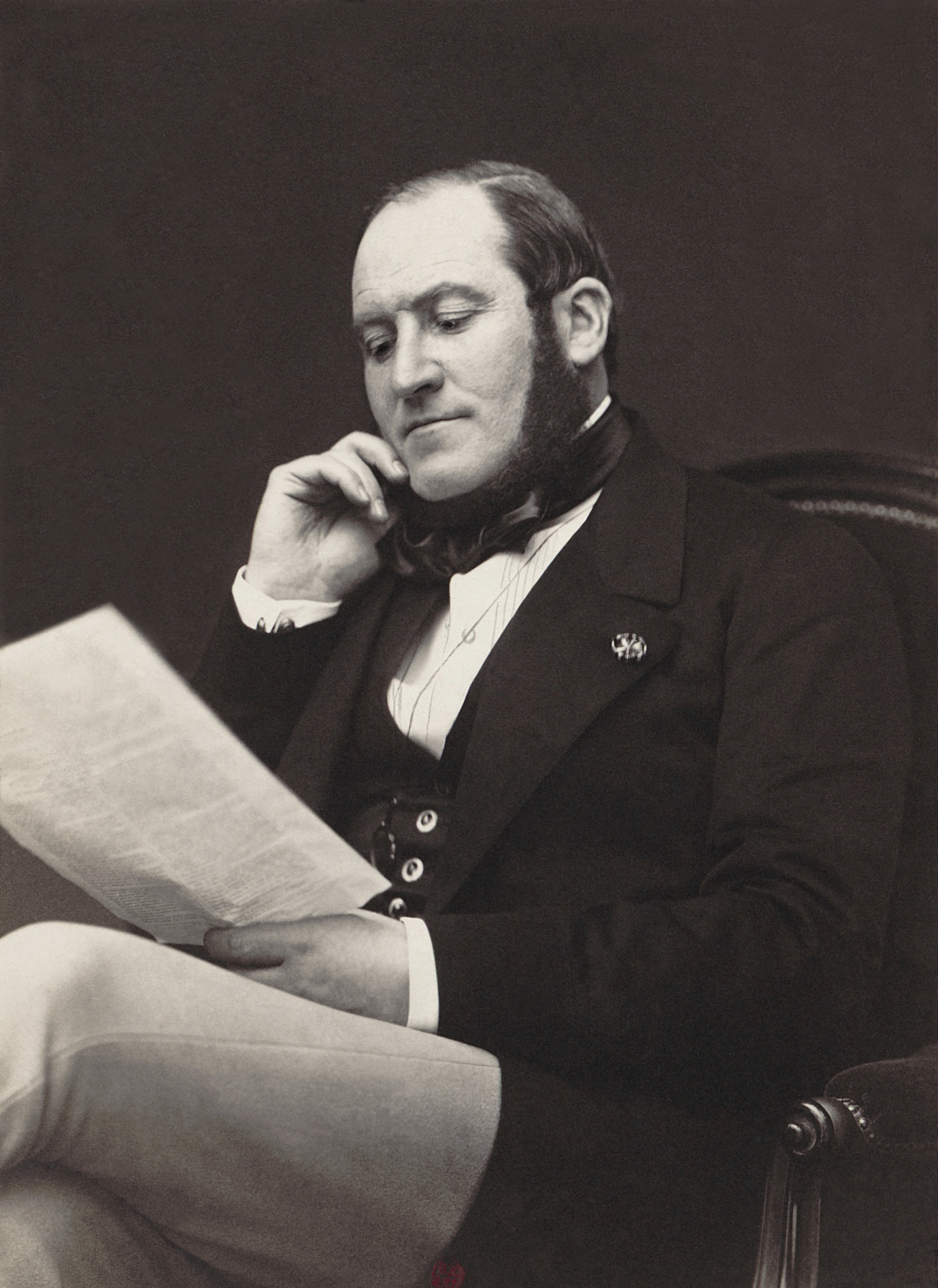 Baron Georges-Eugène Haussmann (1809-1891), Prefect of Paris, urbanist of the Napoleon III's Paris.